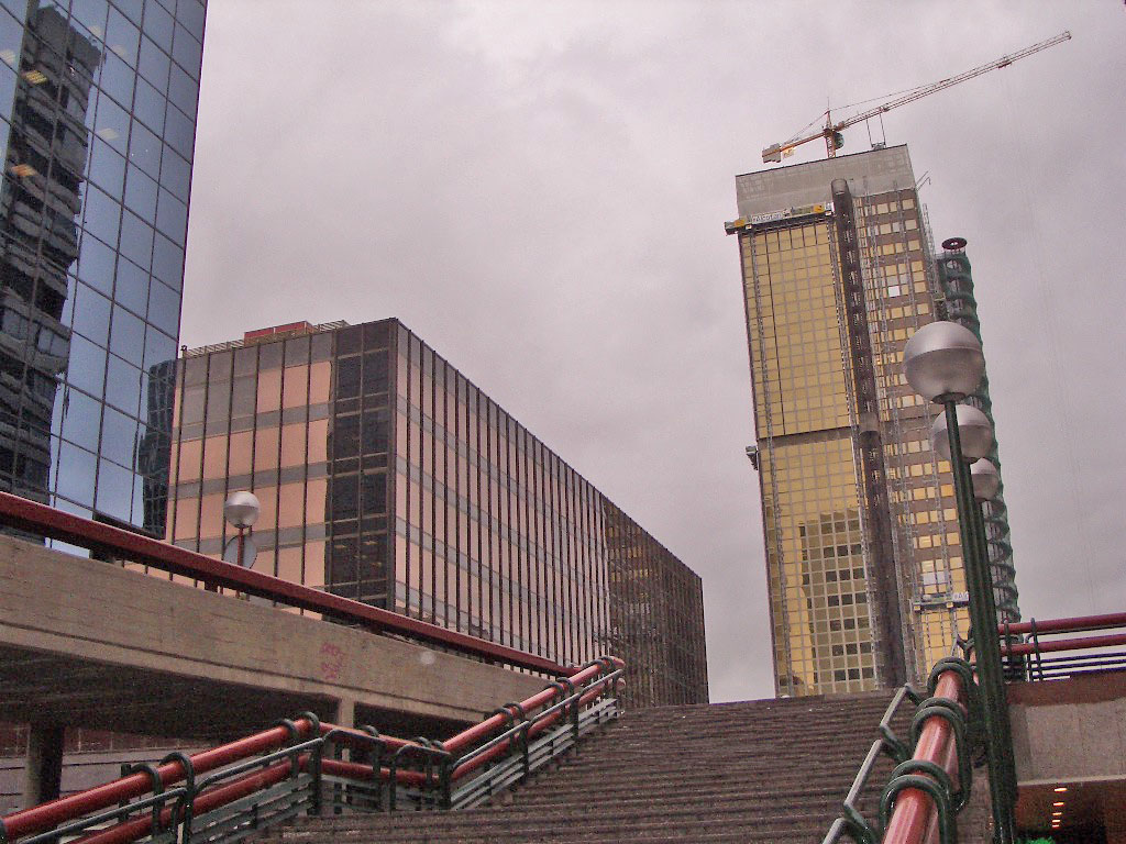 Azca zone and windsor building before burning itself in Madrid ( Spain )